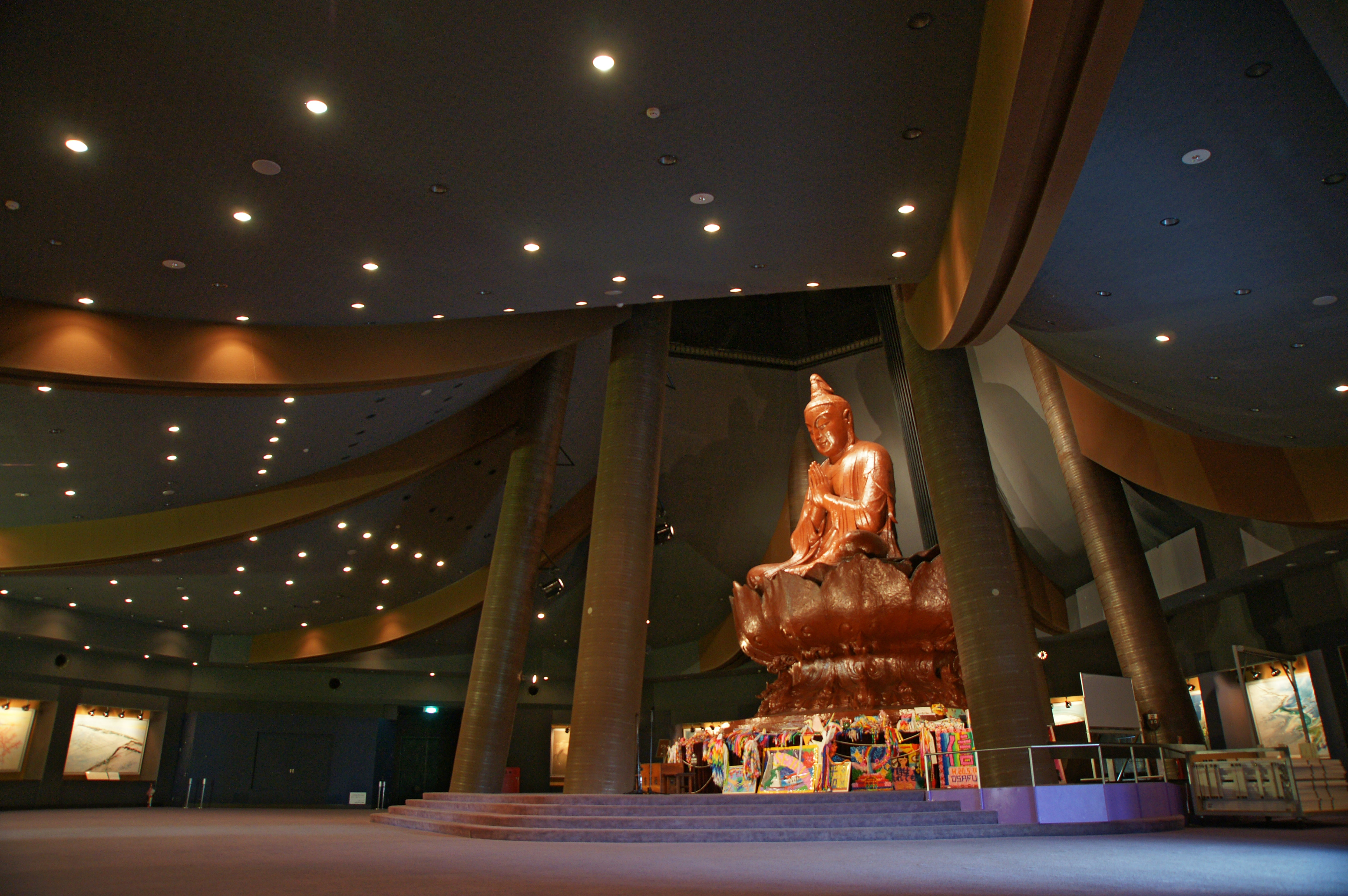 Okinawa Heiwakinen Memorial Hall in Itoman, Okinawa prefecture, Japan.